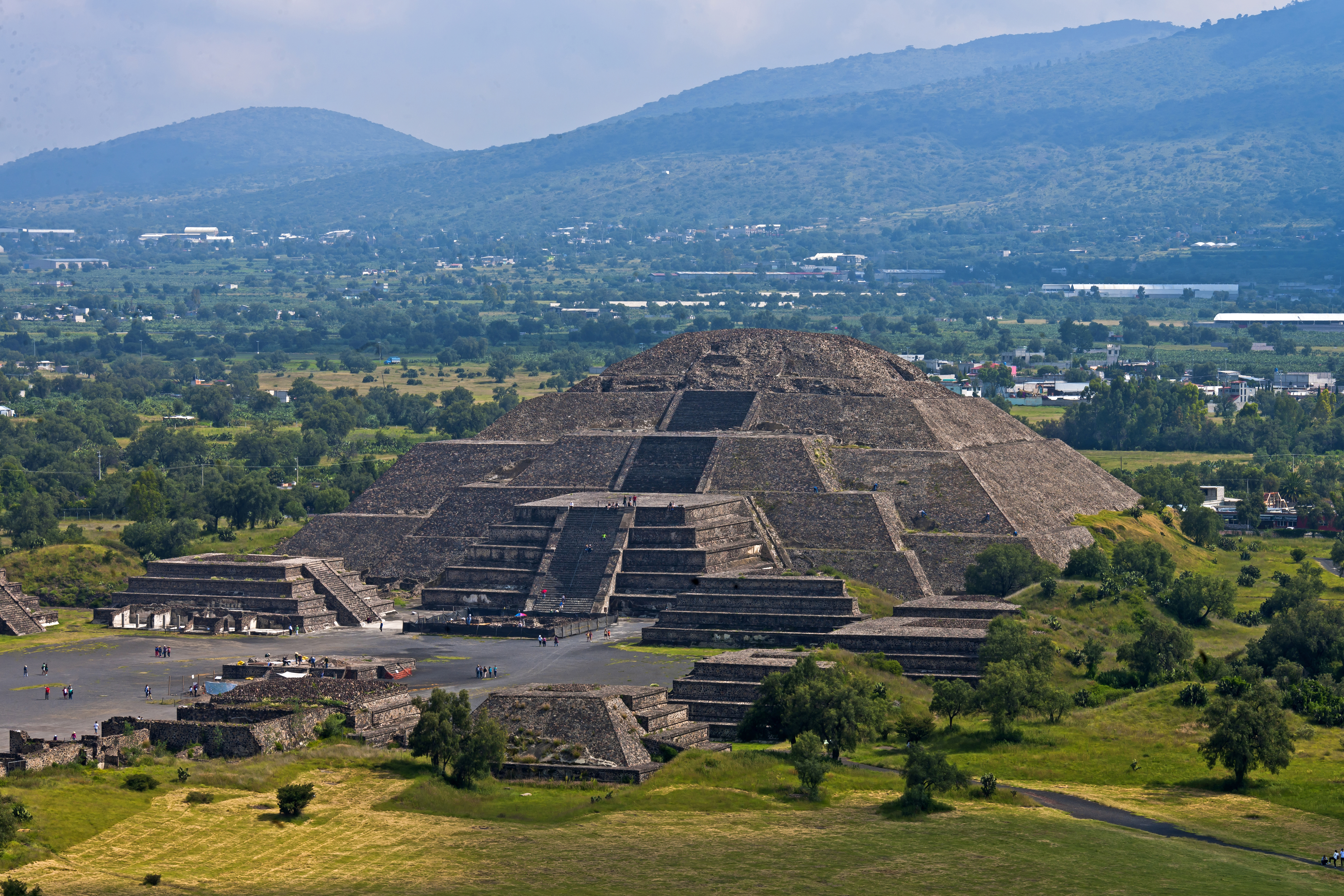 Looking at Pirámide de la Luna from Pirámide del Sol, Teotihuacan